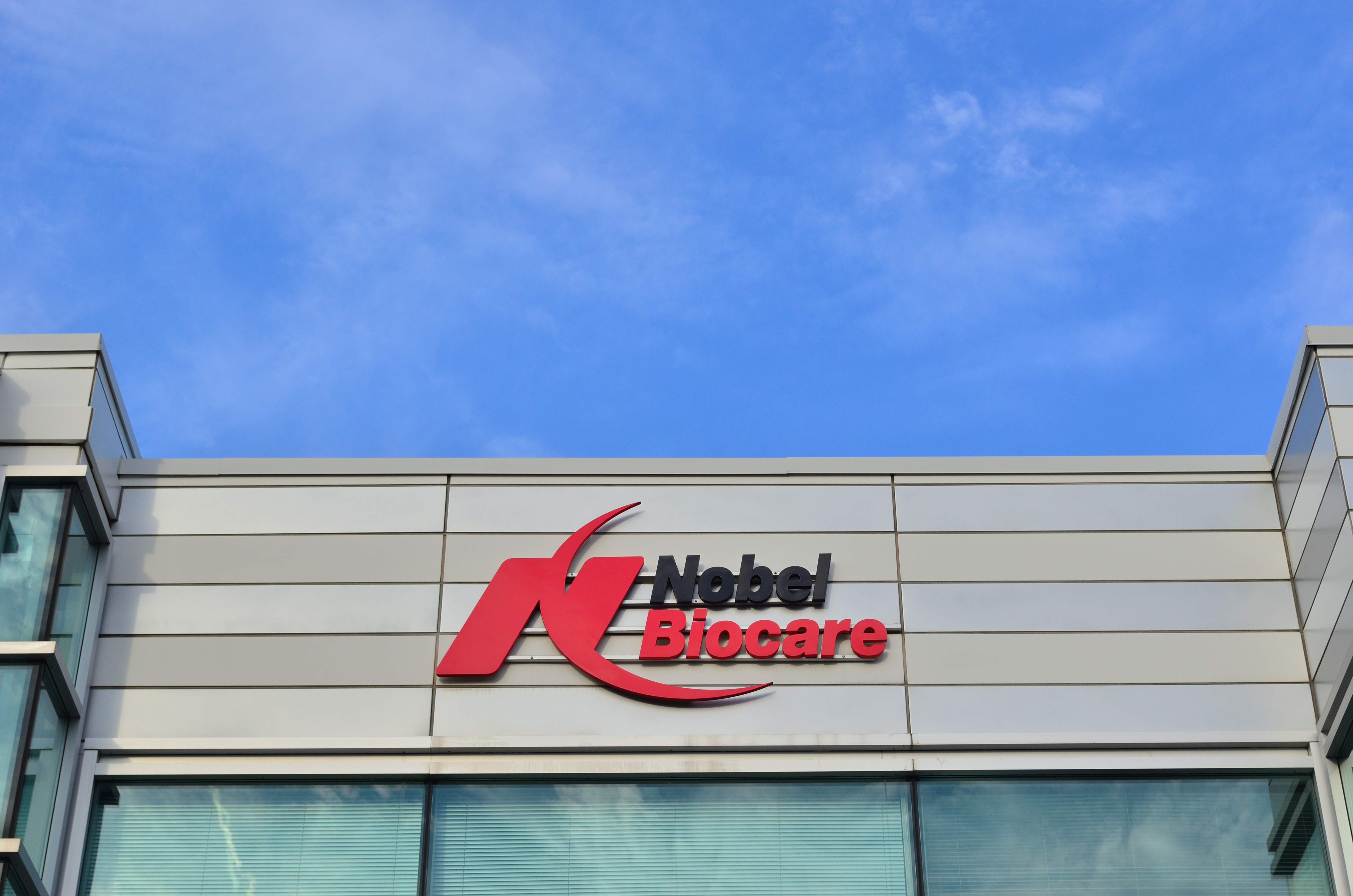 Nobel Biocare Canada Inc. - Address: 9133 Leslie St #100, Richmond Hill, ON L4B 4N1